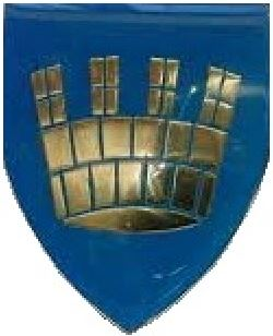 SADF era Kroonstad Commando emblem